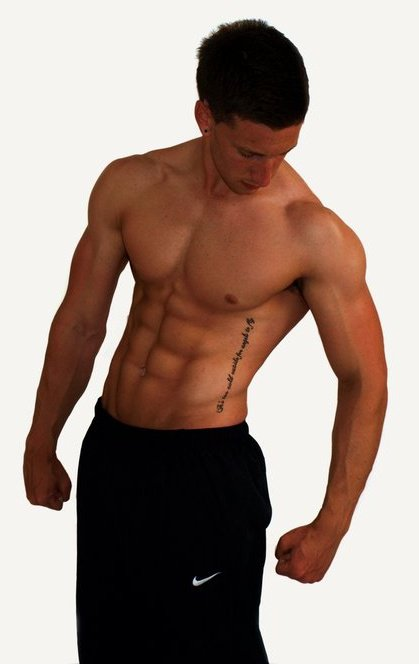 Heeeeeeeeench.